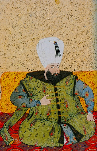 Sultan Ahmed I